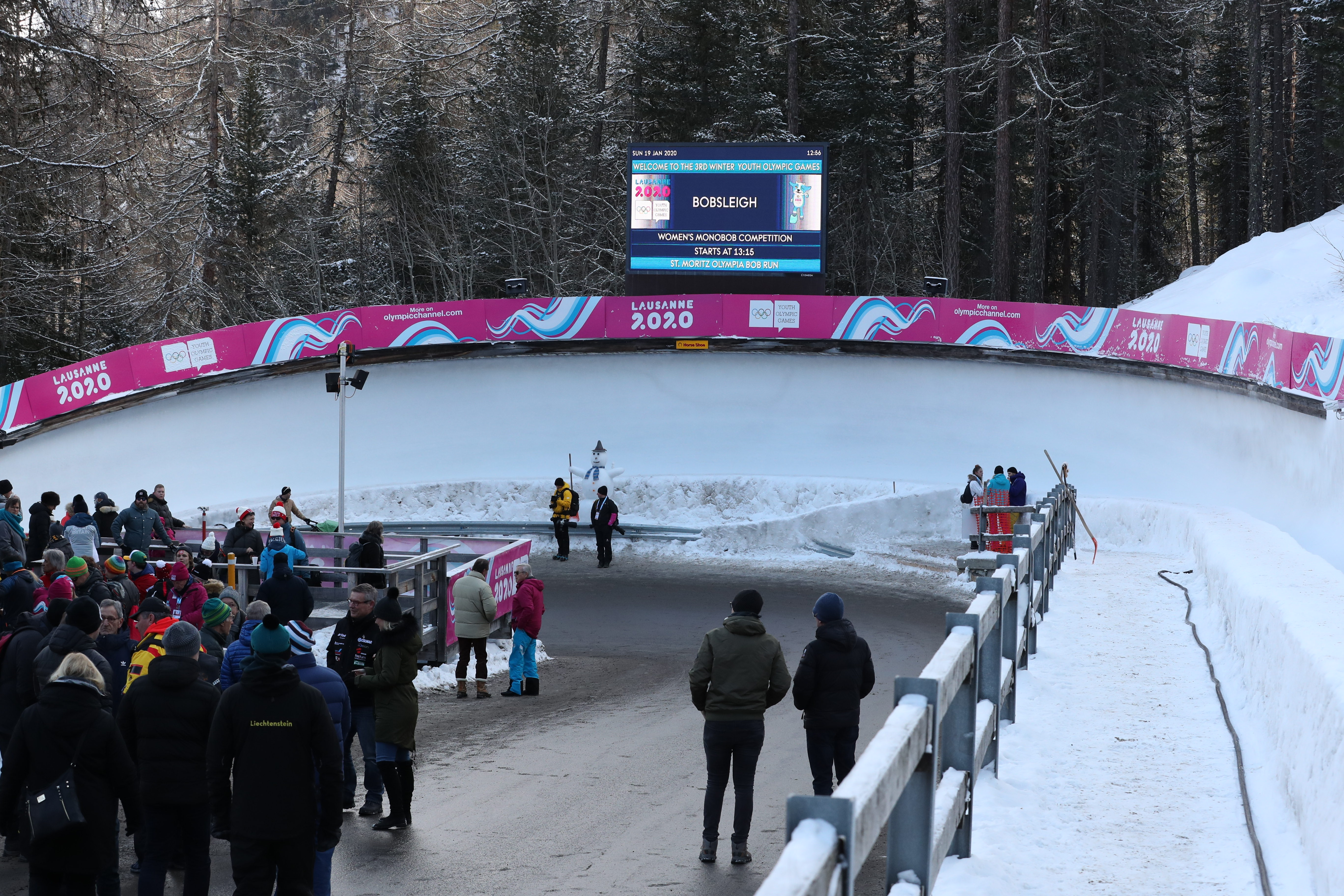 2nd run Women's Monobob at the 2020 Winter Youth Olympics in Lausanne